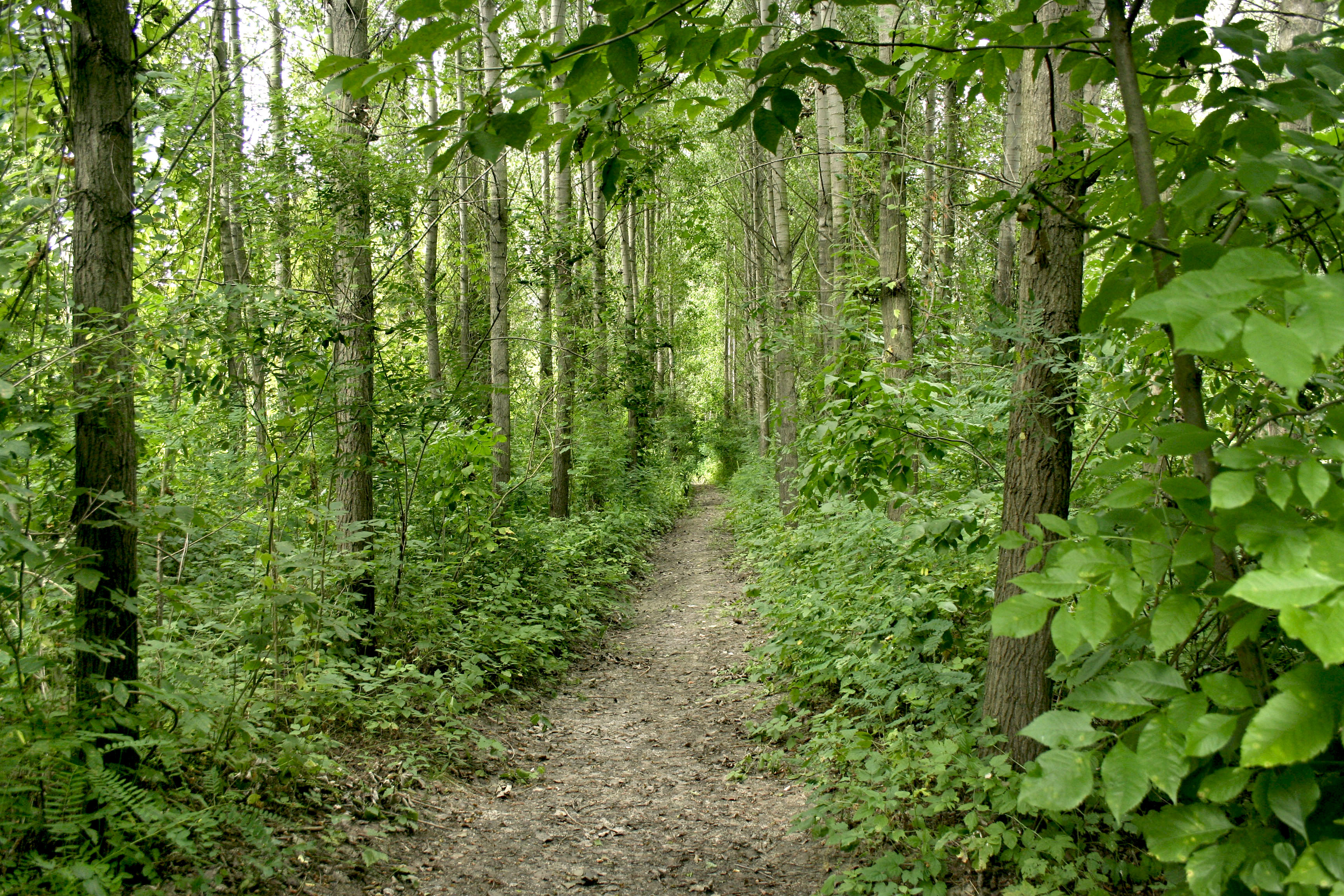 Tisza River - artificially planted forest - dry weather, floodplain near Algyoe Hungary